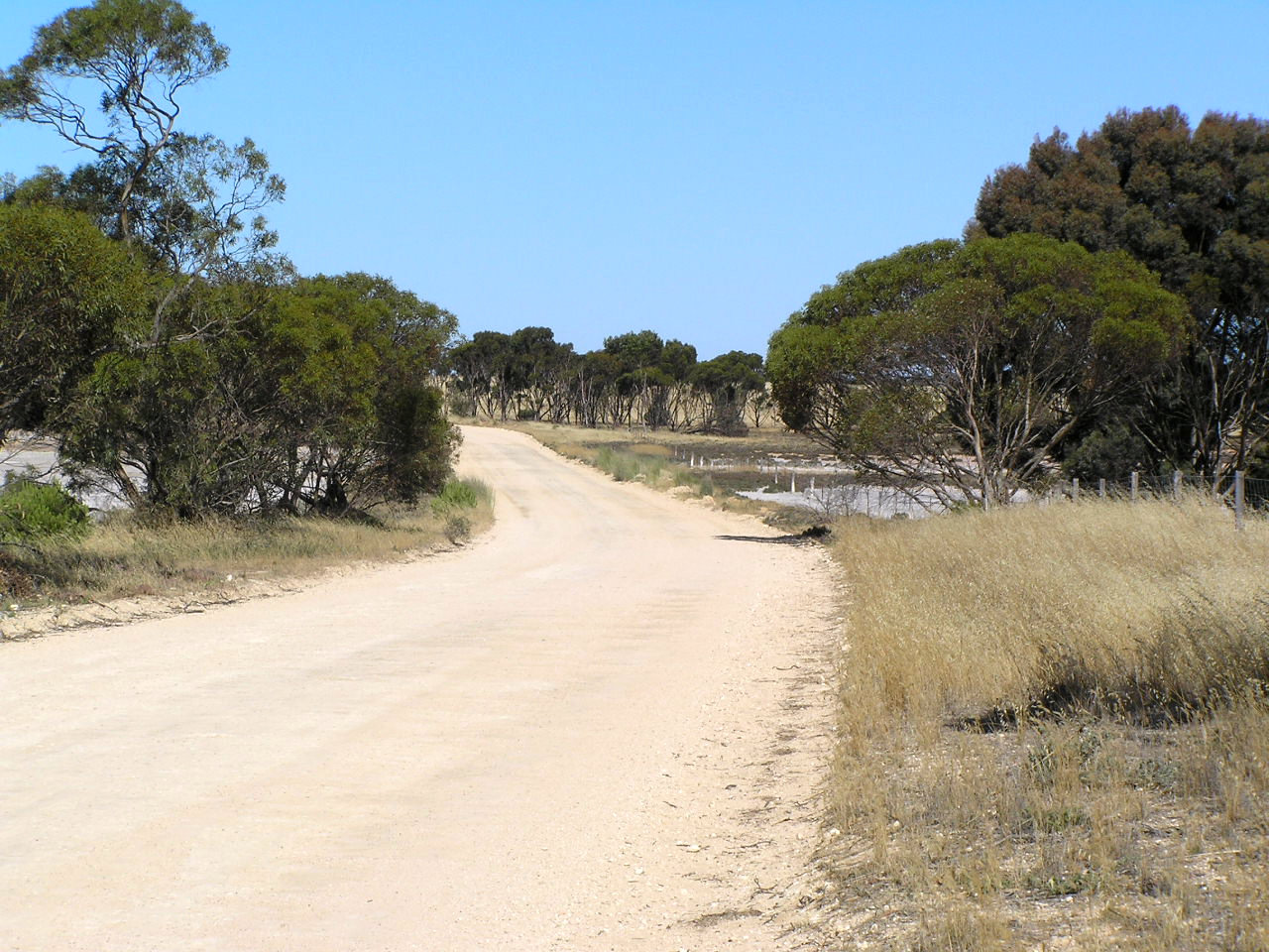 This photo was taken by me Bilbao06 in Dec 2004